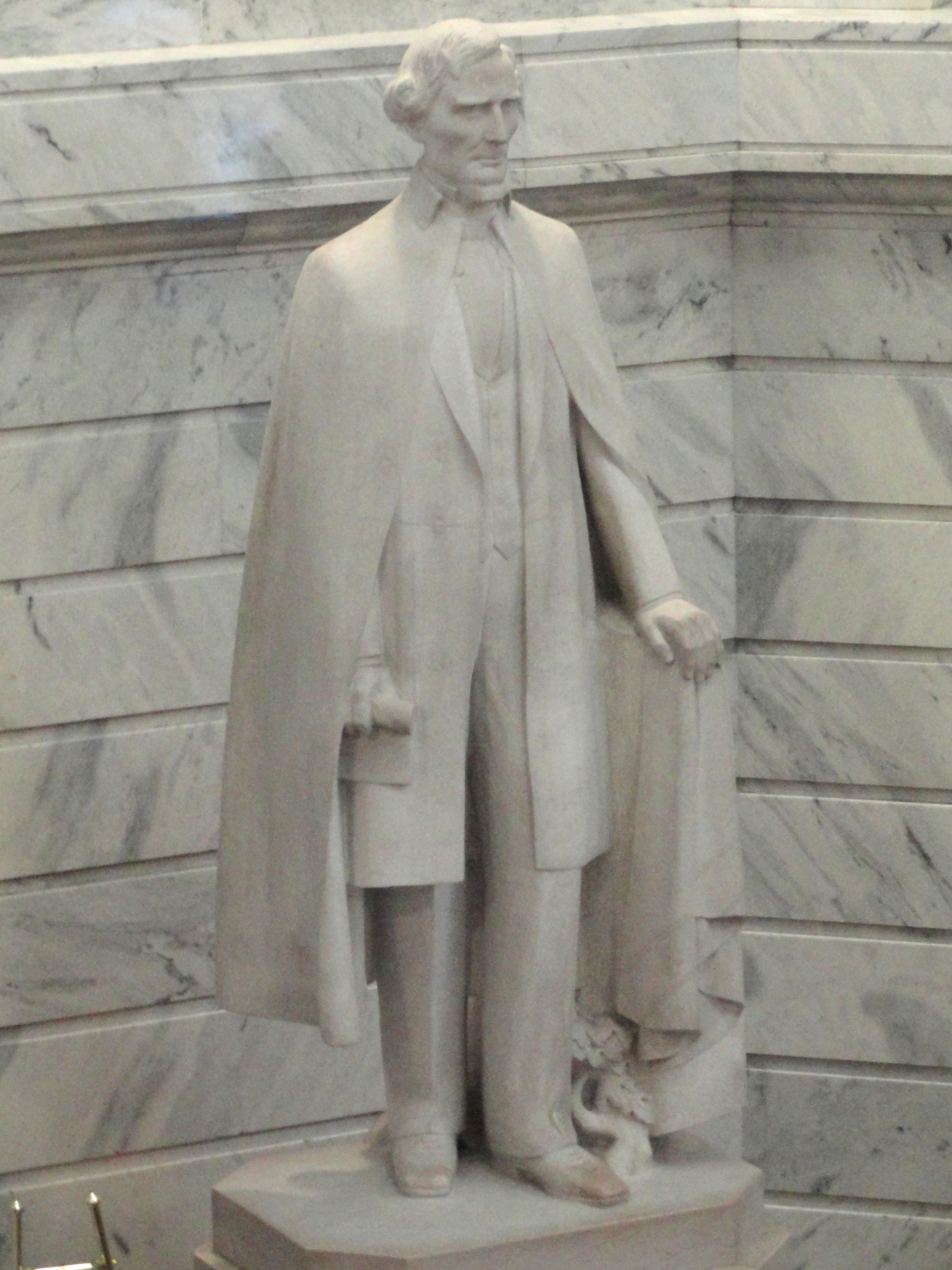 Statue of Jefferson Davis by Frederick Cleveland Hibbard (1881-1950), within the Kentucky State Capitol, Frankfort, Kentucky, USA. Dedicated in 1936. This artwork is now in the public domain because it had no copyright notice.